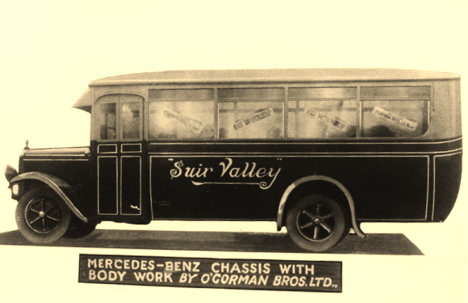 Mercedes-Benz Chassis with Bodywork by O'Gorman Bros.Ltd